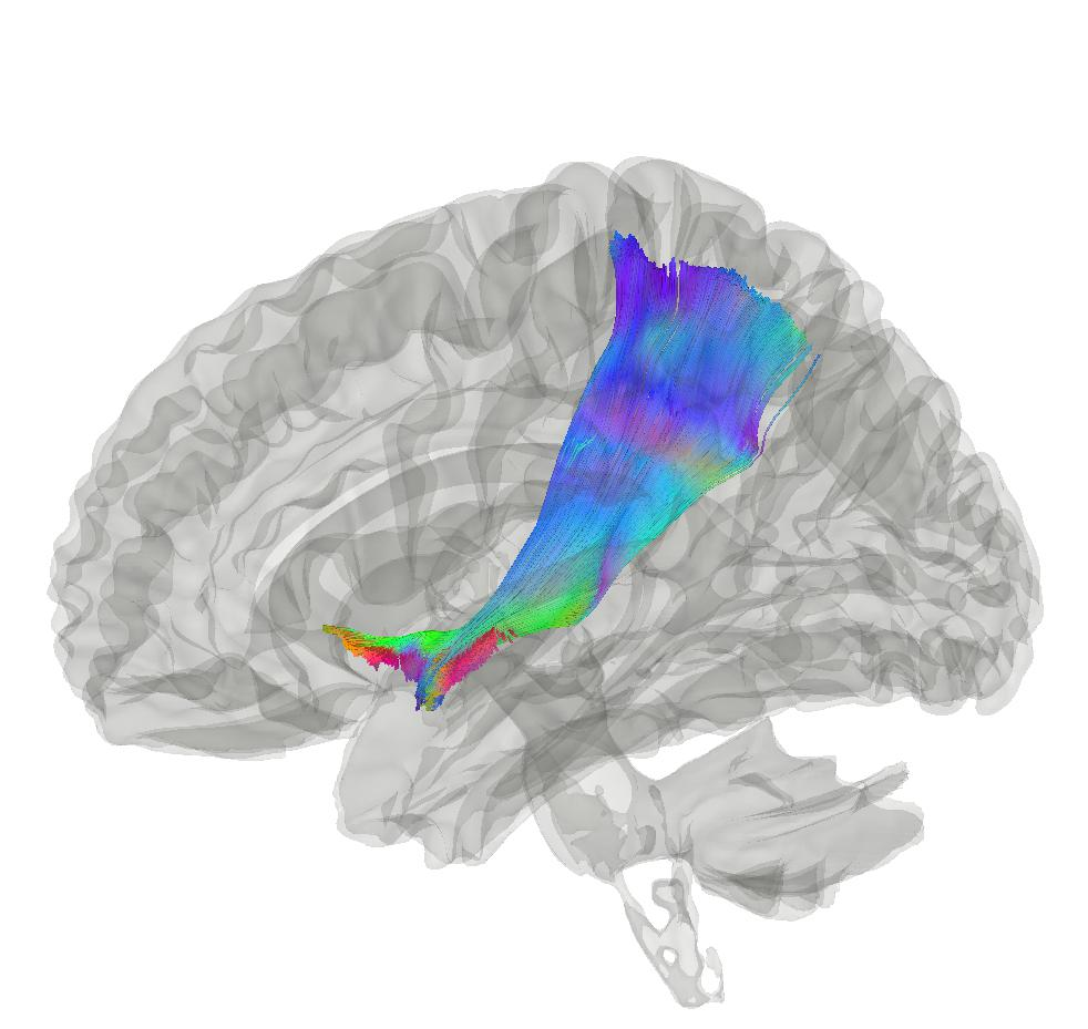 Tractography showing extreme capsule on a population-averaged template